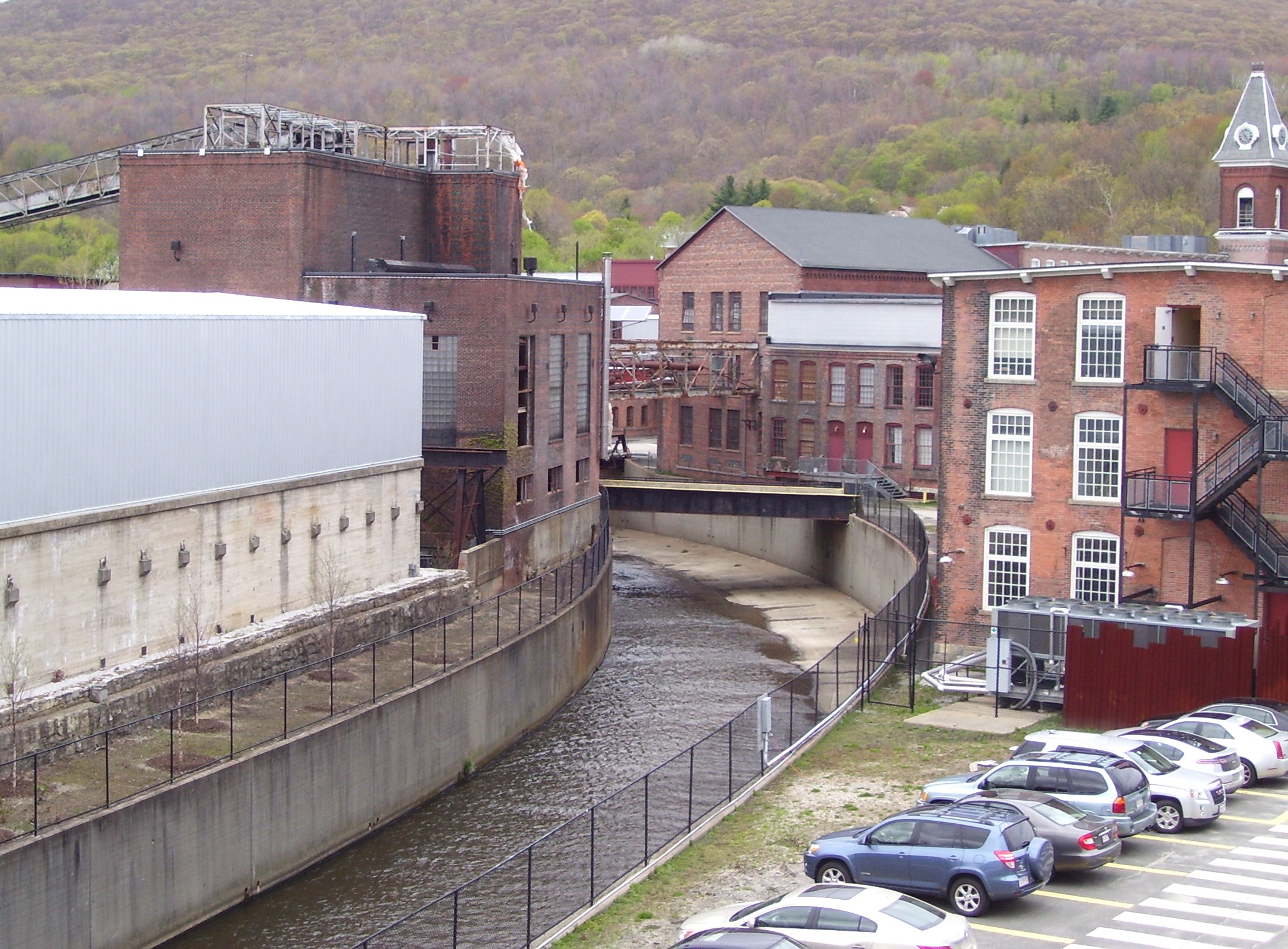 Buildings of the Arnold Print Works (now MASS MoCA) as seen from the Route 2 overpass over State Street in North Adams, Massachusetts. The building on the left dates from when Sprague Electronics owned the property. The river is a tributary of the Hoosic River.